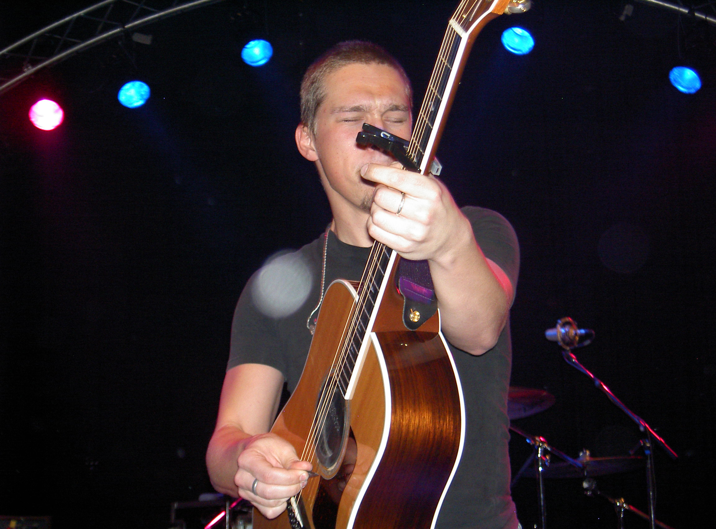 Isaac Hanson, Hanson live at Amager Bio in Copenhagen, Danmark. April 10th 2005.